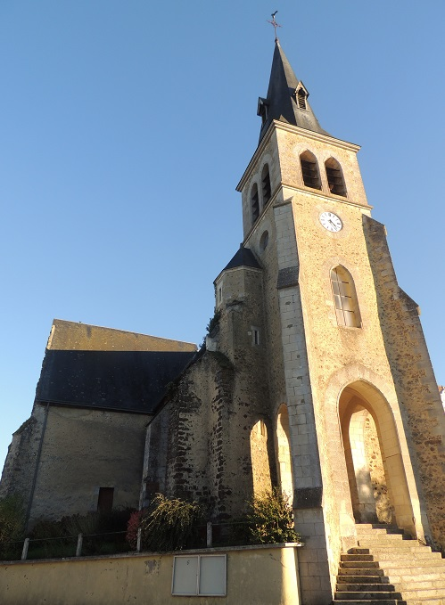 Église Saint-Martin d'Évaillé, bell tower - porch with its side reinforcements and a side medieval little tower